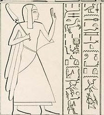 Sons of Pharaoh Ramesses II. Sebua Temple. Amunherkhepeshef, Ramesses, Pareherwenemef, Khaemwaset, Montuherkhepeshef, Nebenkharu, [Meryamun,] Sethemwia.